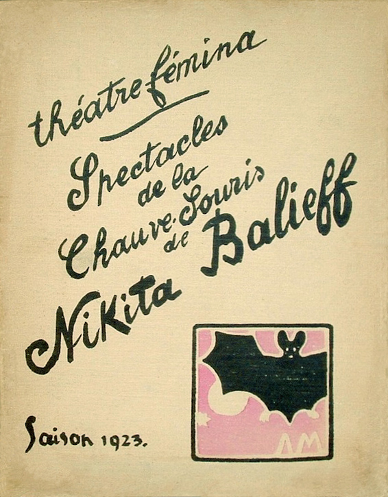 Programme of the Femina Theatre (Paris, France) starring Nikita Balieff